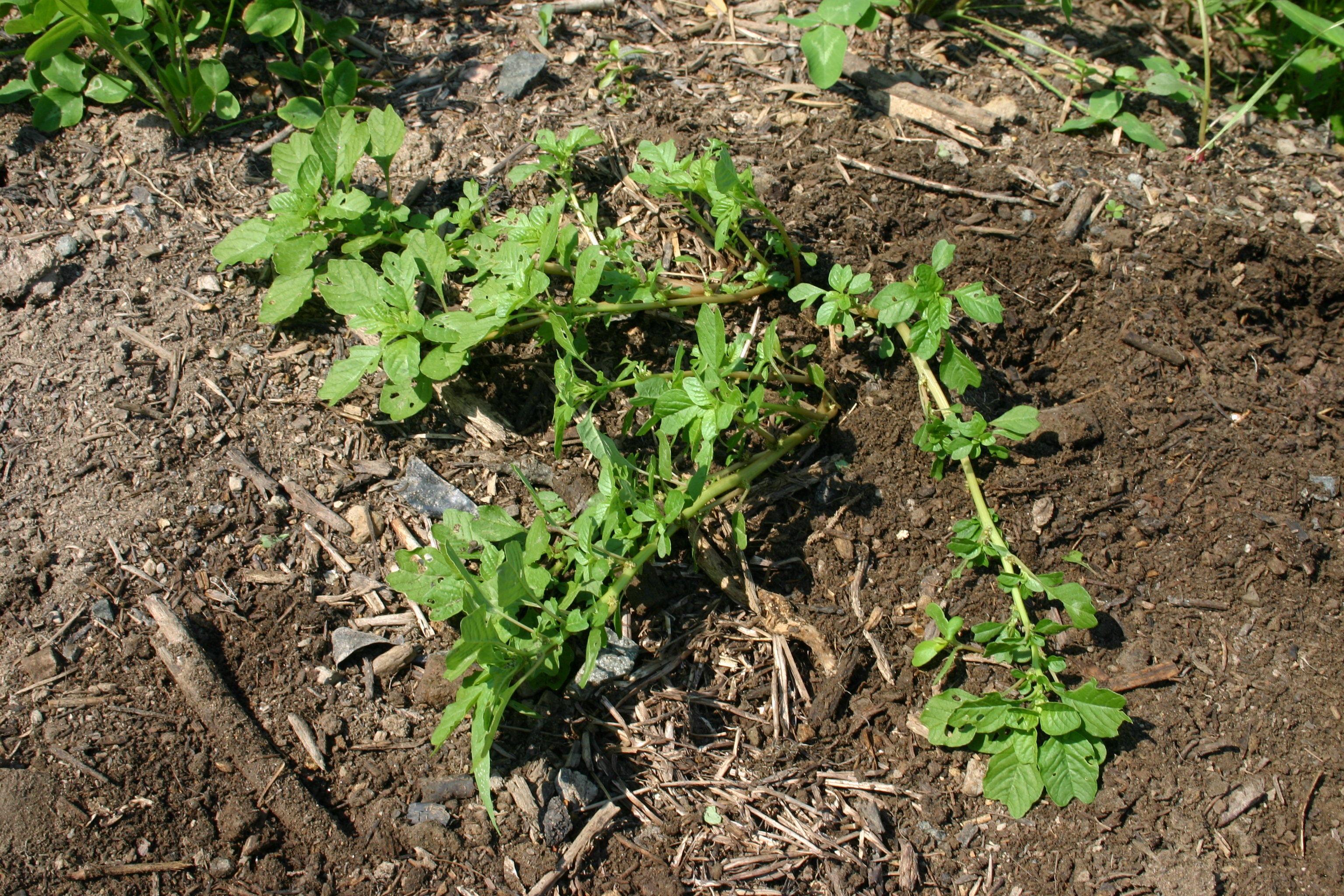 Amaranthus blitoides